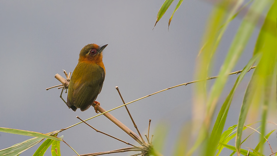 The species White-browed Piculet had been photographed during the birding tour of GoingWild in Khangchendzonga National Park in West Sikkim in Sikkim, India on 19.02.2016.